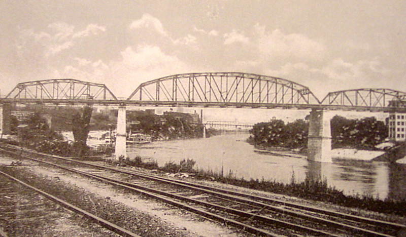 Photograph of the Shelby Street Bridge in the early 1920s, Nashville, Tennessee.